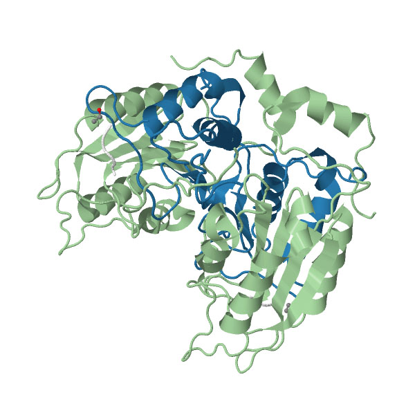 20kDA and 10kDA subunits highlighted in the peptide inhibited Caspase-1 protein (a teramer of the subunits).